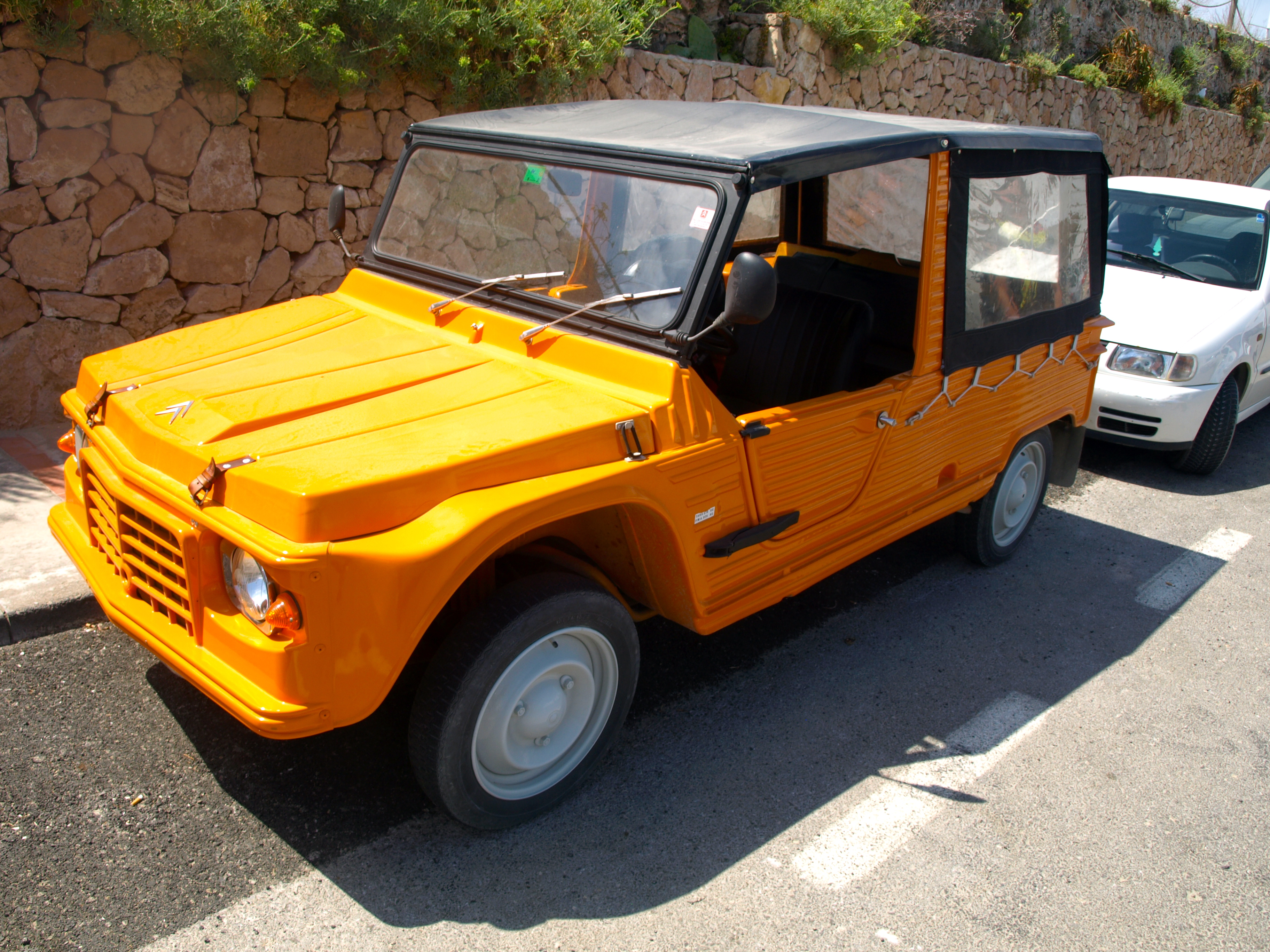 Citroën Méhari parked at Formentera Place Lloc/Place: Port de la Sabina